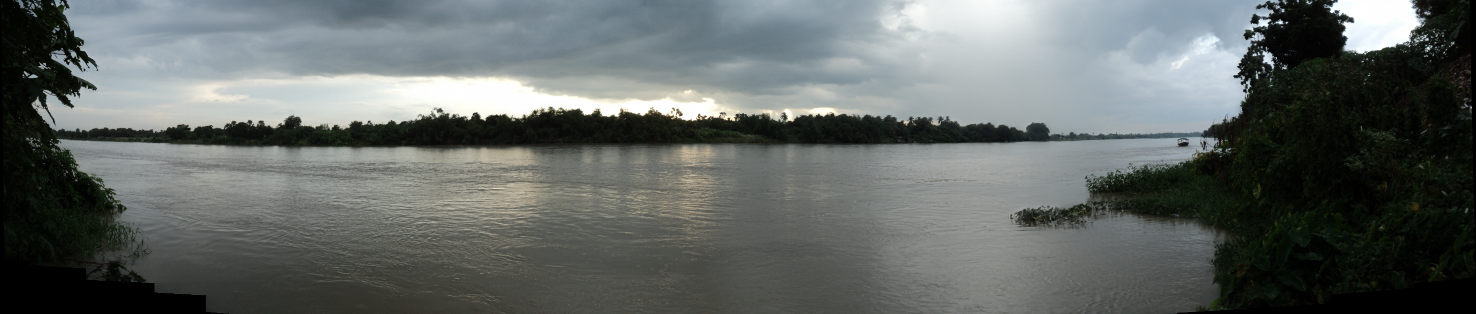 Bhageerathi Panorama